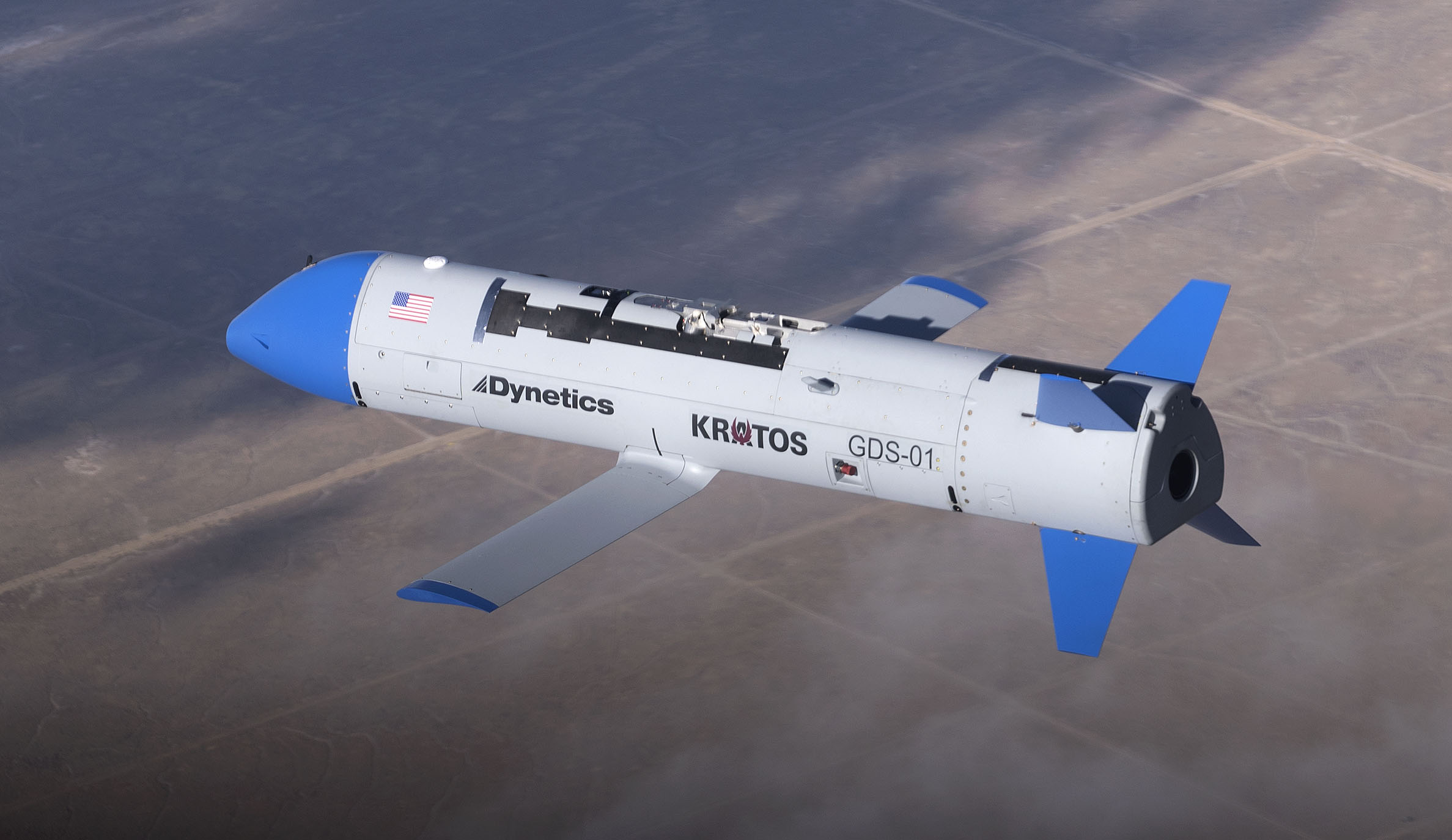 Dynetics X-61A during its maiden flight 23 November 2019. Original image caption: Gremlins air vehicle during a flight test at Dugway Proving Ground, Utah, November 2019